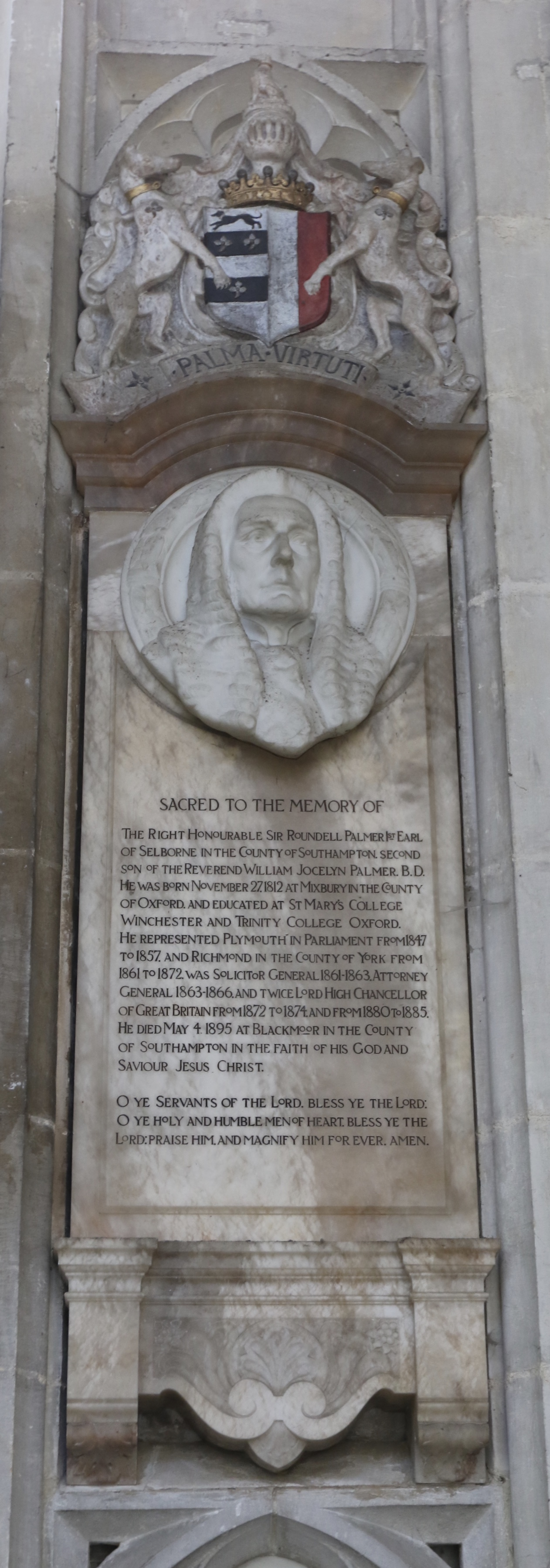 Rt. Hon. Sir Roundell Palmer 1st Earl of Selborne. Born 27 November 1812. Died 4 May 1895. Educated at St Mary's College, Winchester, and Trinity College, Oxford. Represented Plymouth in Parliament from 1847-1857, and Richmond in the County of York from 1861-1872. Was Solicitor General 1861-1863. Attorney General 1863-1866, and twice Lord High Chancellor of Great Britain from 1872-1874 and from 1880 to 1886.